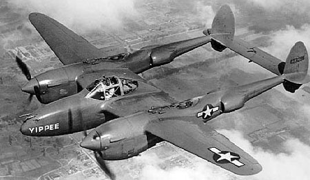 Lockheed P-38J in flight